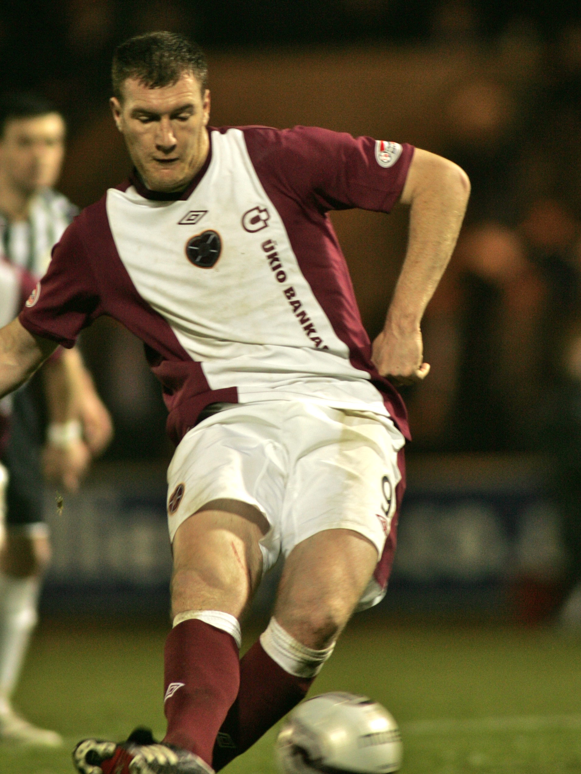 Heart of Midlothian F.C. player Kevin Kyle playing in a Scottish Premier League match against St. Mirren F.C. on 29 December 2010.